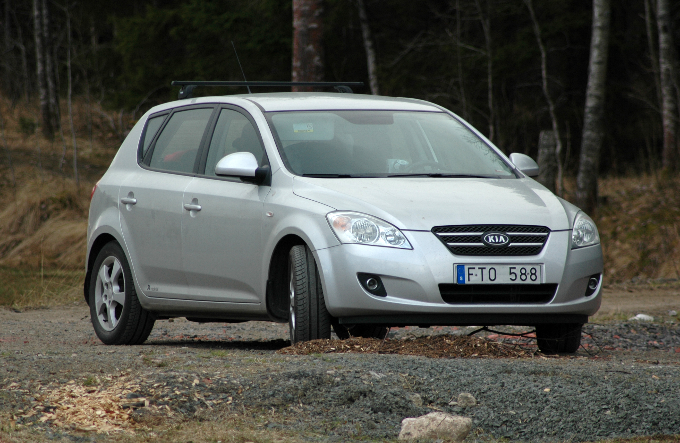 Kia cee'd